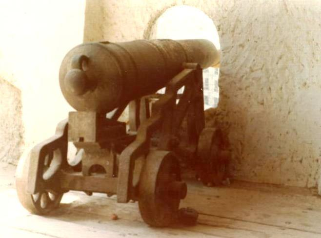 Fort Mirani, Muscat. This canon still stands facing the sea.